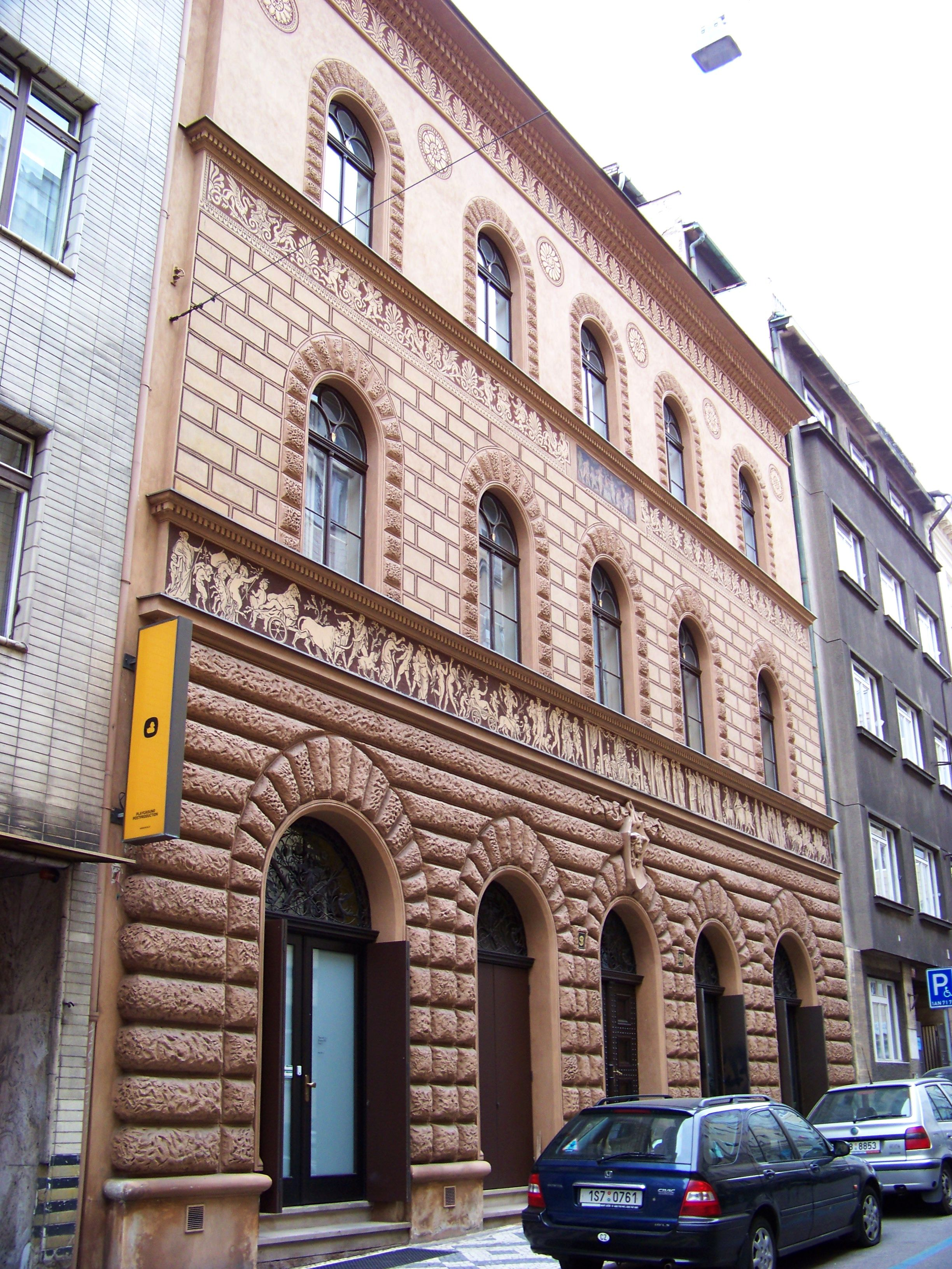 Prague-Vinohrady, the Czech Republic. Mikovcova 548/5.